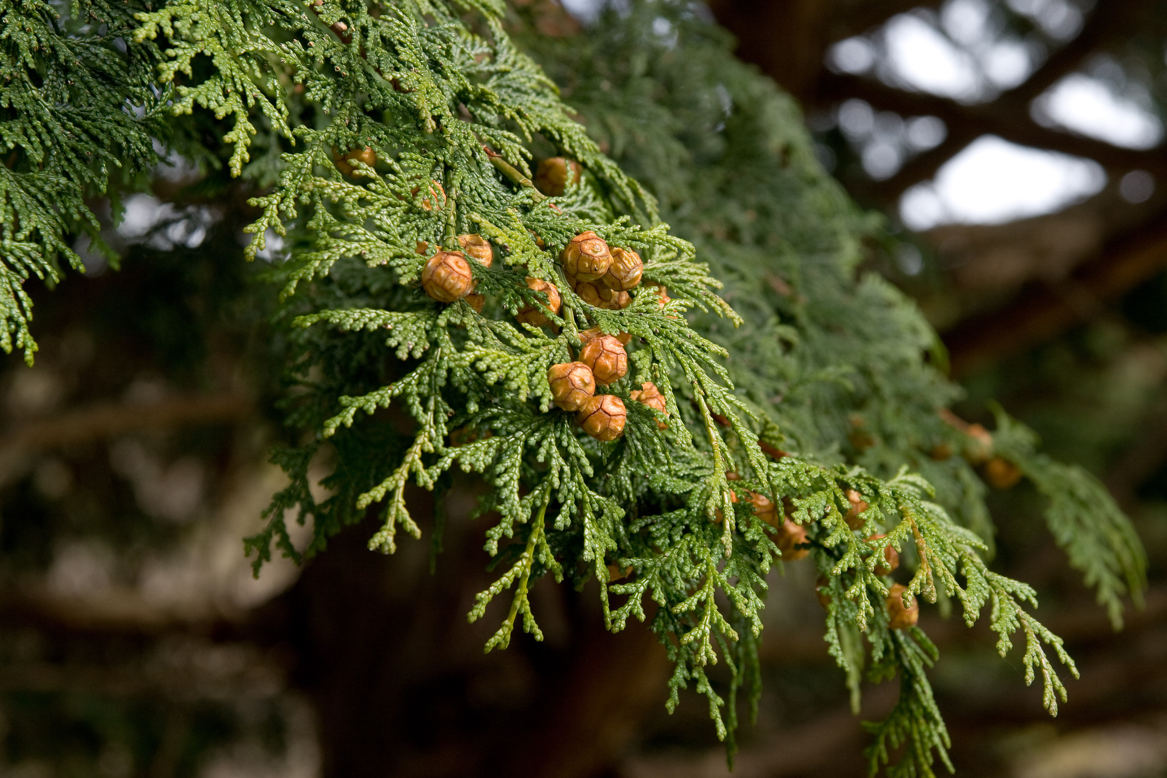 Hinoki Cypress, Tanzawa Mountains, Japan